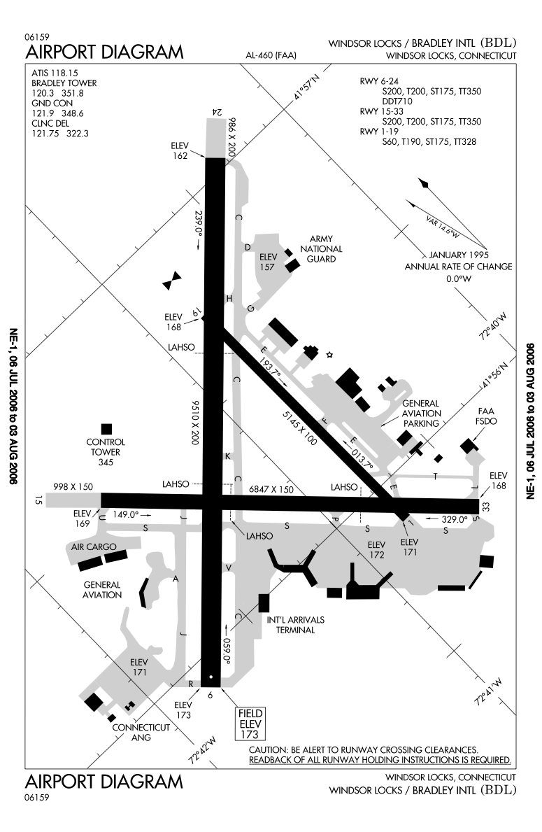 Airport diagram of Bradley International Airport. From FAA ([1]). category:Bradley International Airport category:Federal Aviation Administration category:Maps